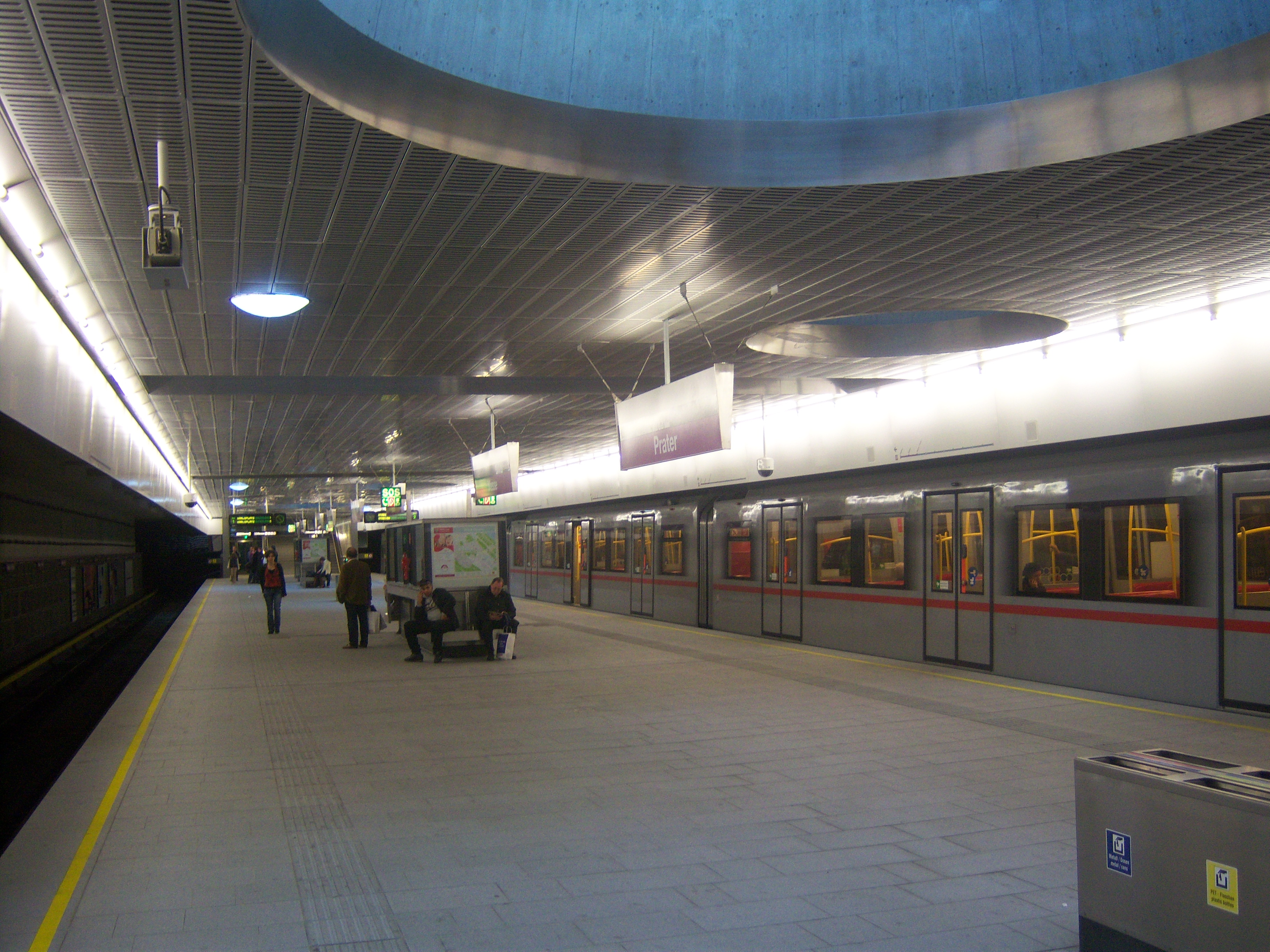 U2-Station Messe-Prater